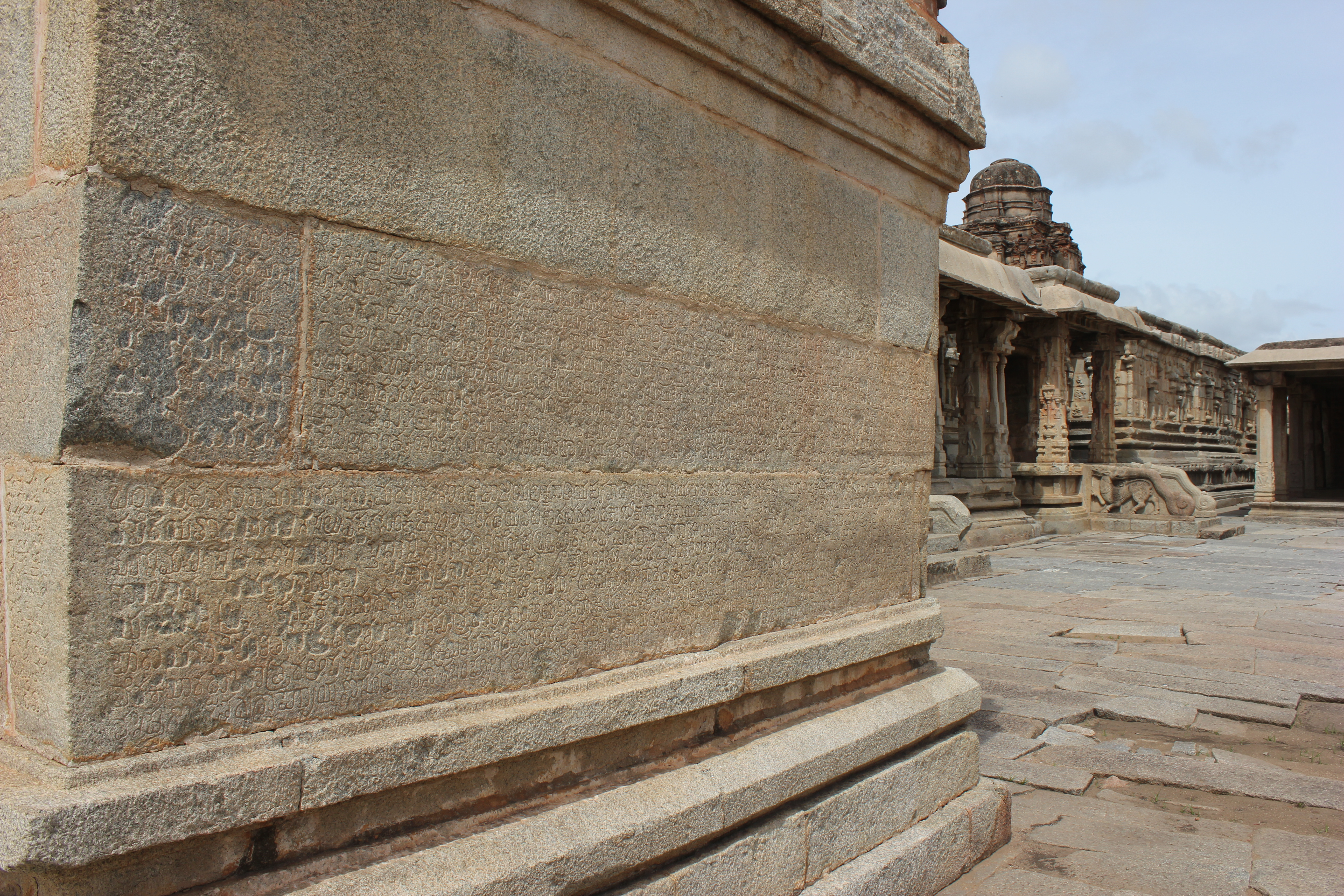 This photograph of a Kannada language inscription dated 1513 A.D. of King Krishnadeva Raya was taken by me in the Krishna temple at Hampi, a UNESCO world heritage site in Bellary district, Karnataka state, India. The inscription describes the king's grants ("dana shasana" or grant inscription)